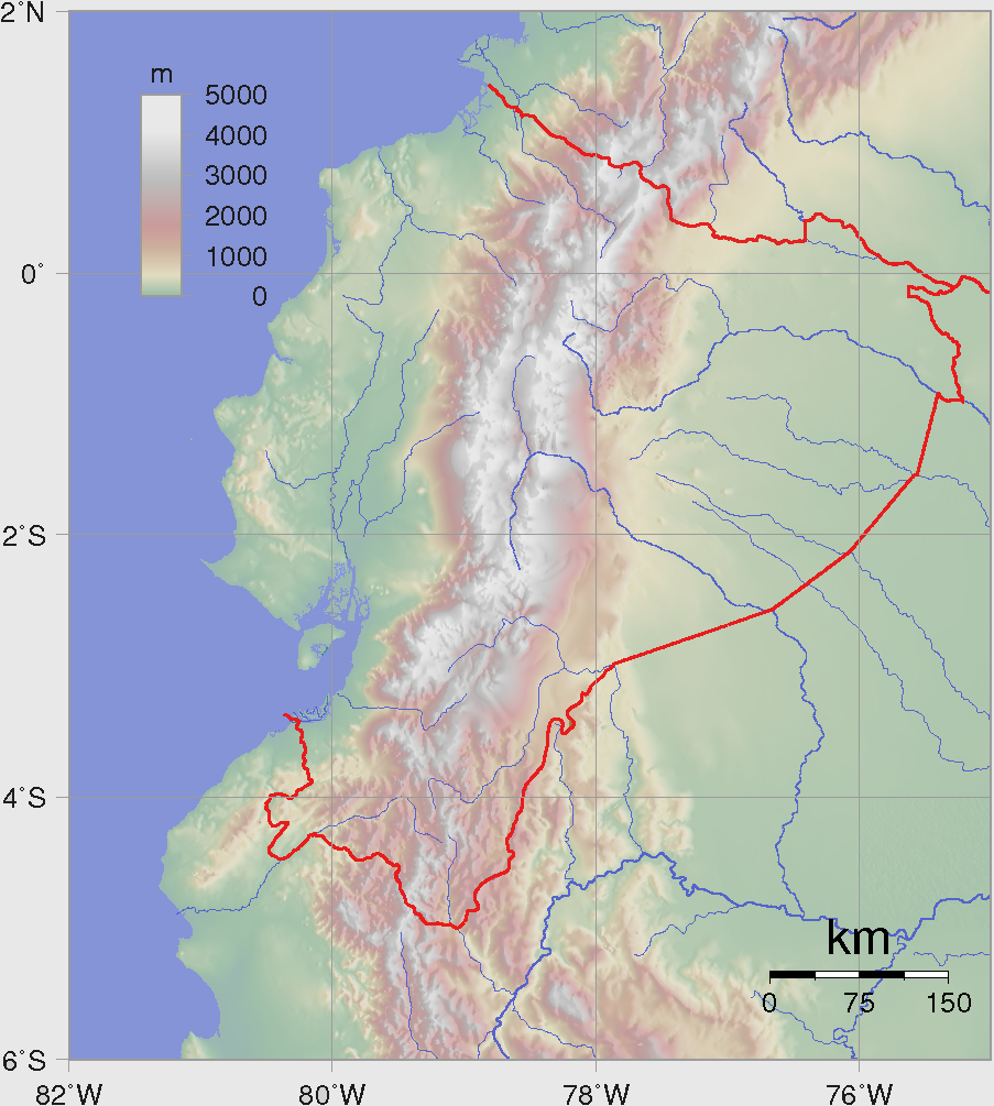 Ecuador rivers